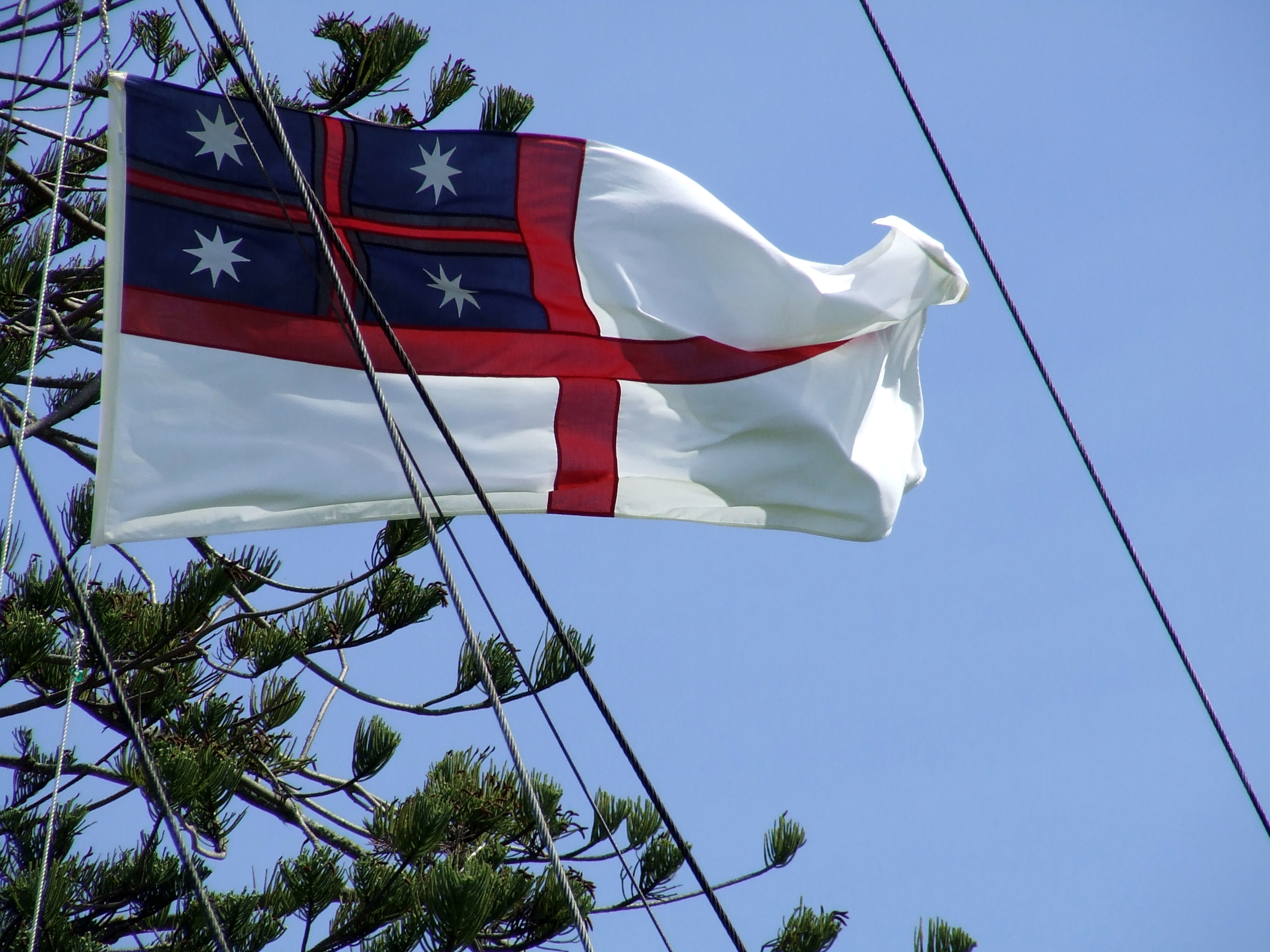 Flag of United Tribes of New Zealand.